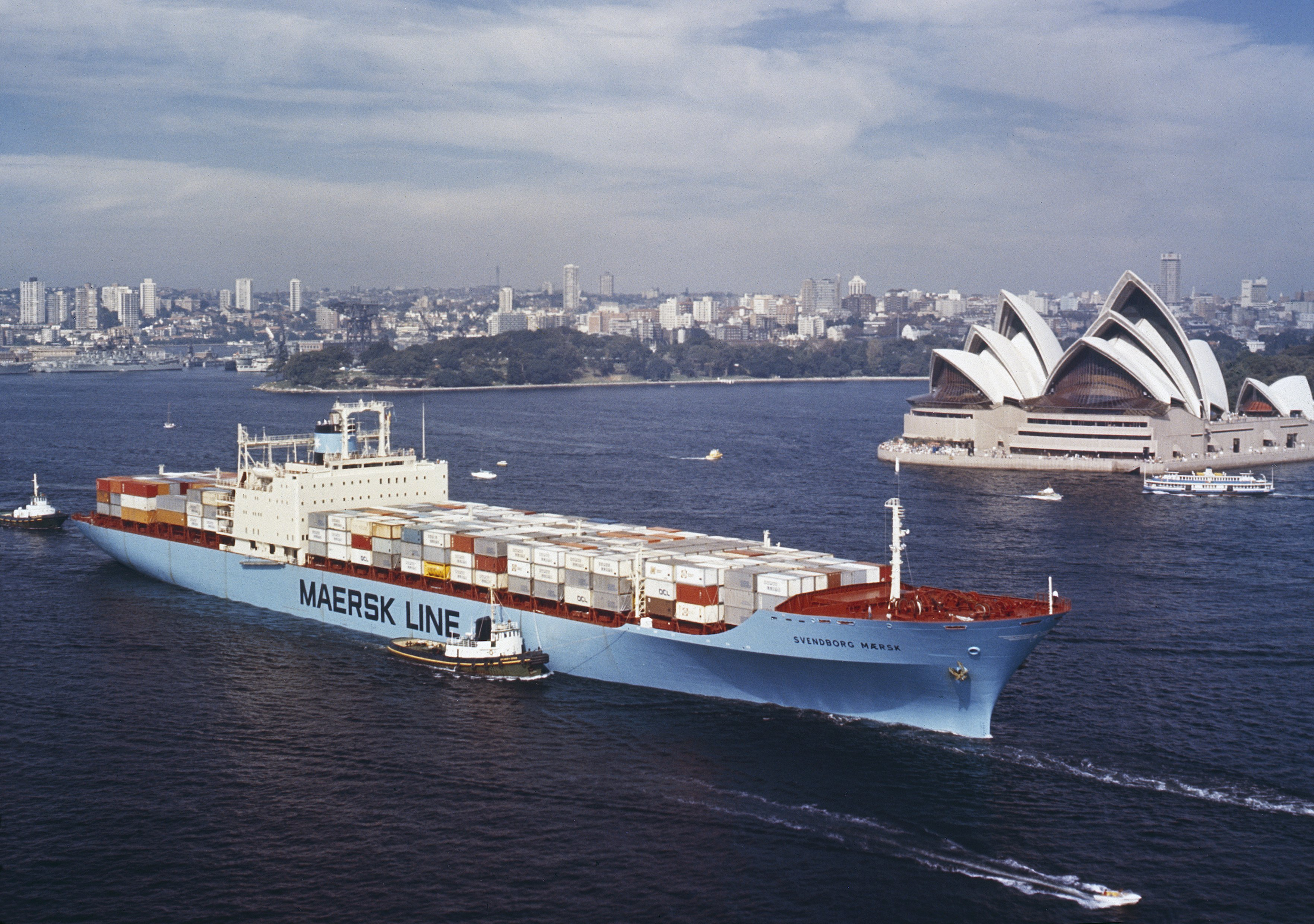 Svendborg Mærsk passing the Opera House in Sydney in the 80's. This vessel was not part of a vessel class, but one of a kind. It only carried 20-foot containers.